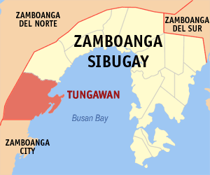 Map of the Zamboanga Sibugay showing the location of Tungawan